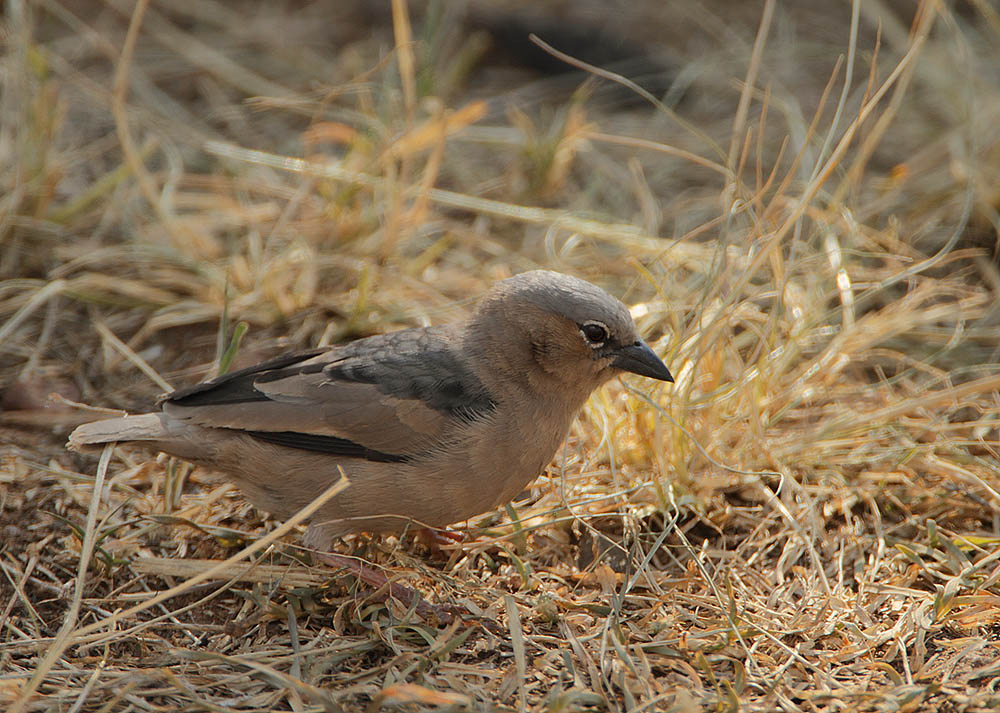 A Grey-headed Social-weaver in Masai Mara National Reserve, Kenya.